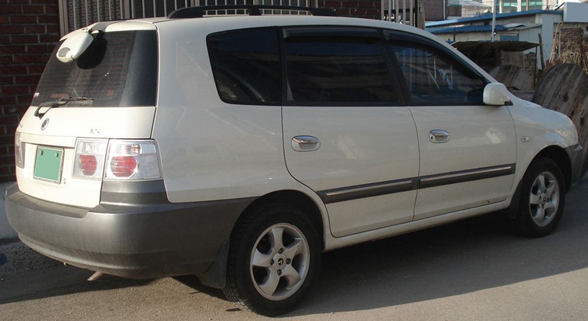 Kia X-Trek